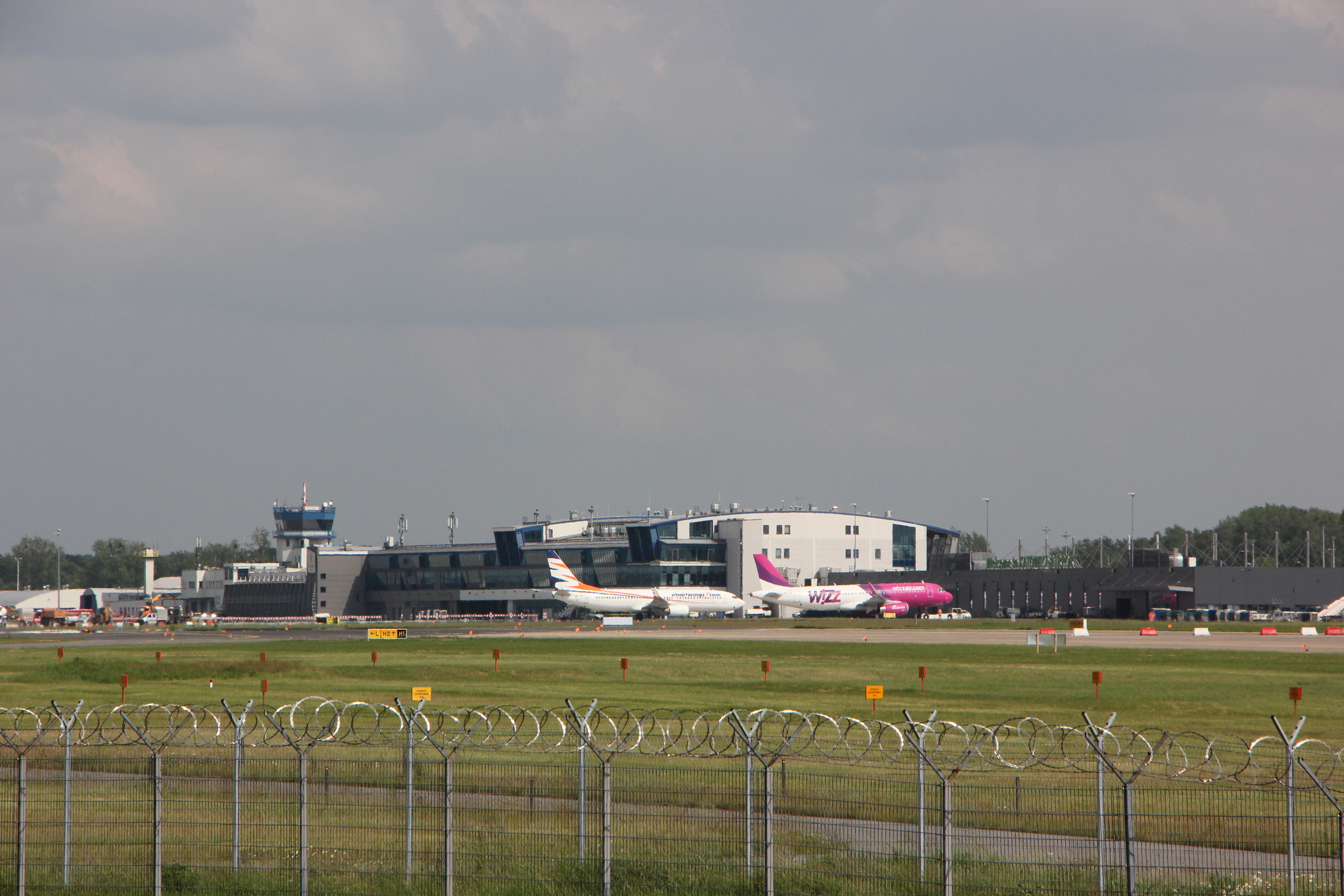 Terminal B & C seen from spotter's platform for runway 09